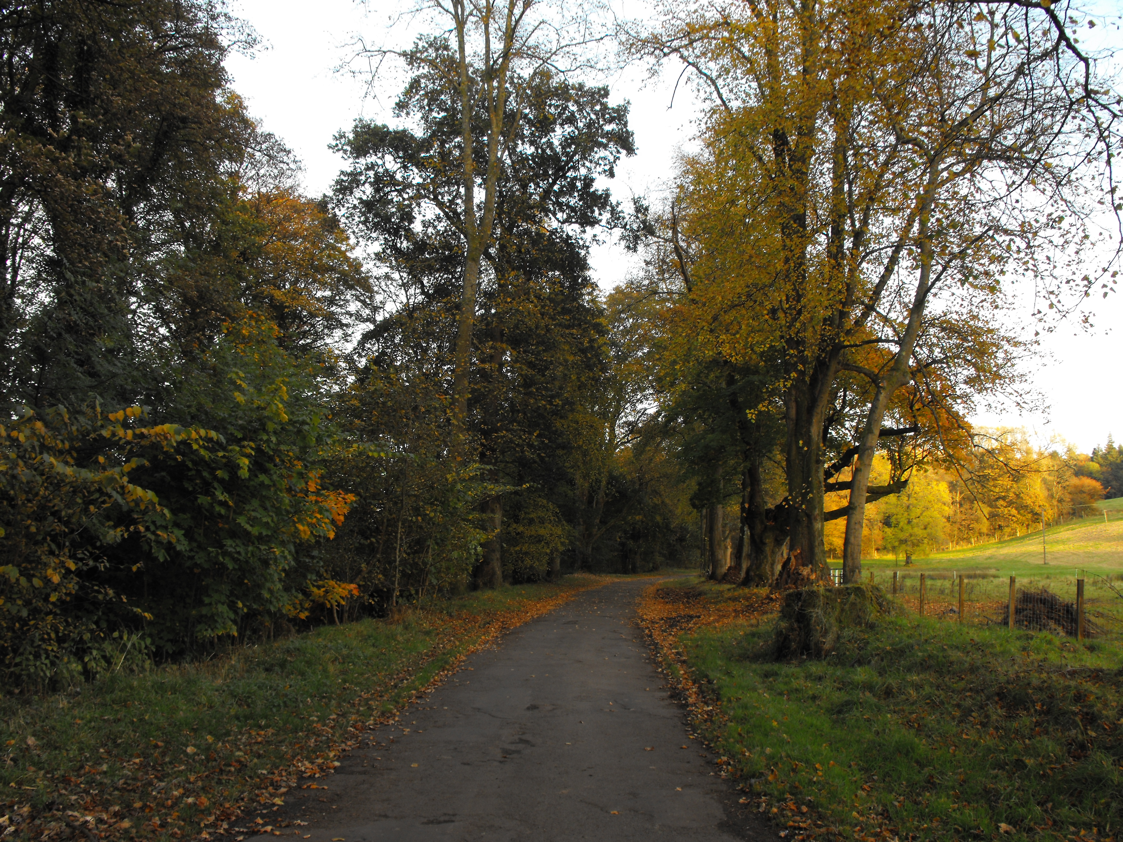 Brown's Road, Newmilns in Autumn.